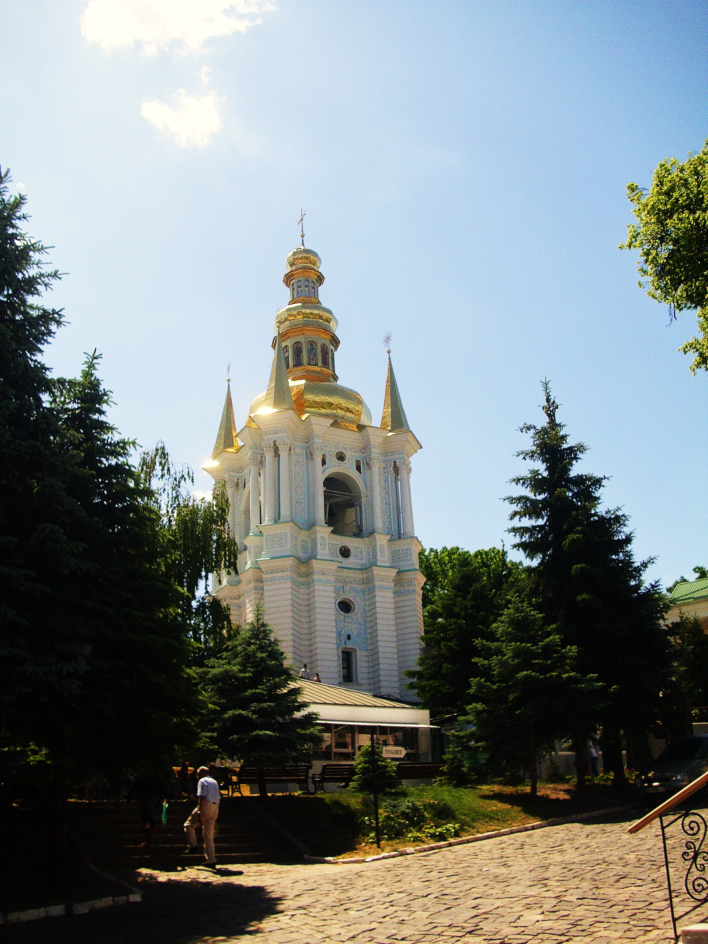 Kiev Orthodox Monostary Golden Tower